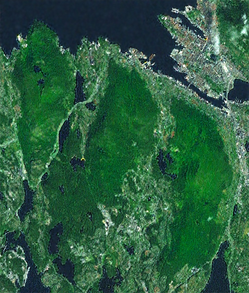 Satellite image of the western mountains in the city of Bergen, Norway. From west to east, Lyderhorn, Damsgårdsfjellet, and Løvstakken.